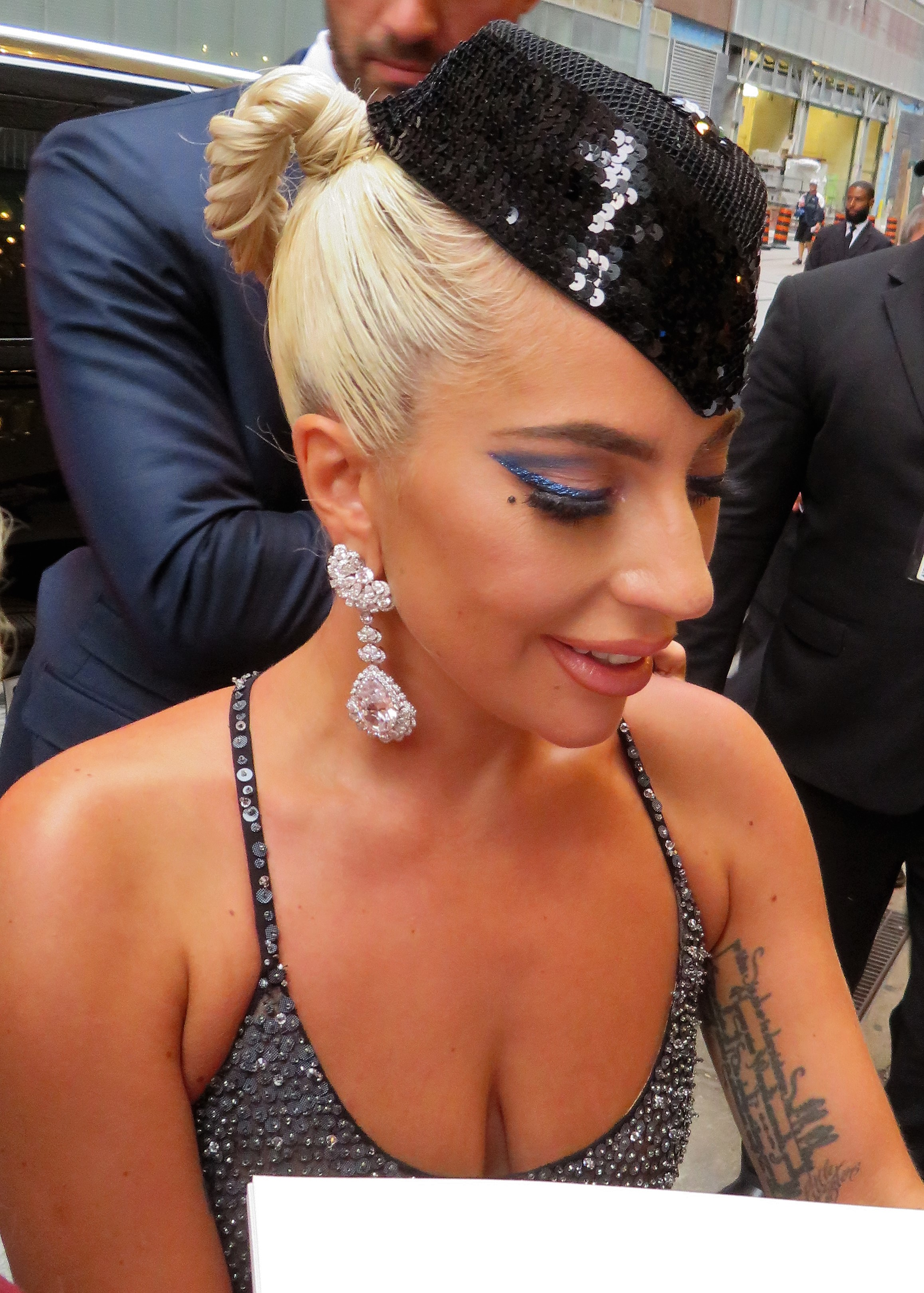 Lady Gaga at the premiere of A Star Is Born, 2018 Toronto Film Festival